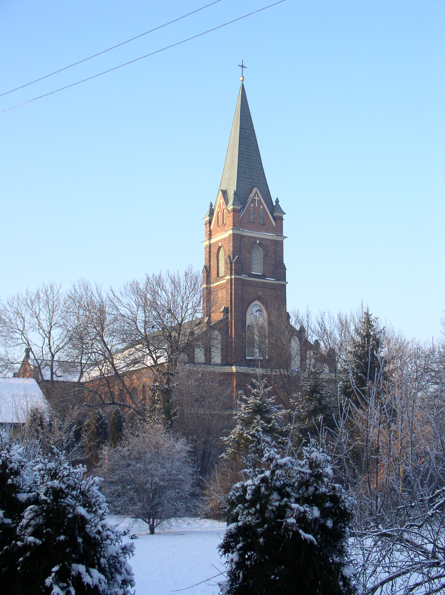 St.Isidor Church, Marki, Poland